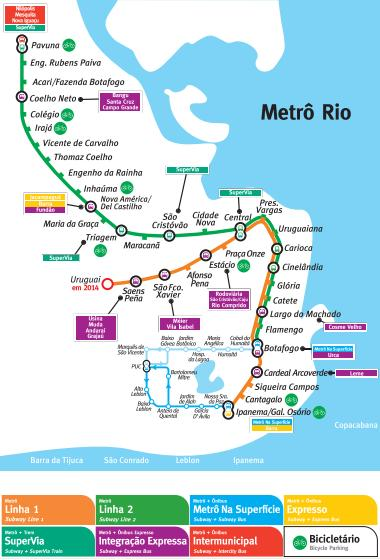 Map of Rio de Janeiro subway lines (under Metrô-Rio administration)